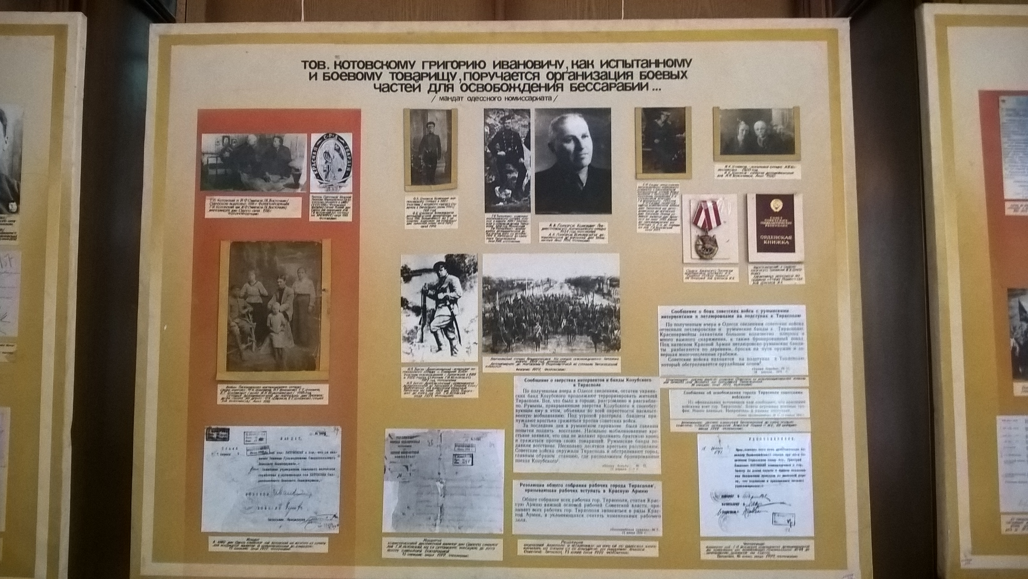 Kotovsky Museum in Tiraspol, exhibition